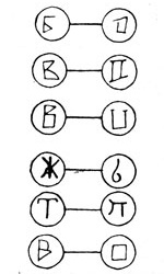 Дрогичинские свинцовые пломбы.